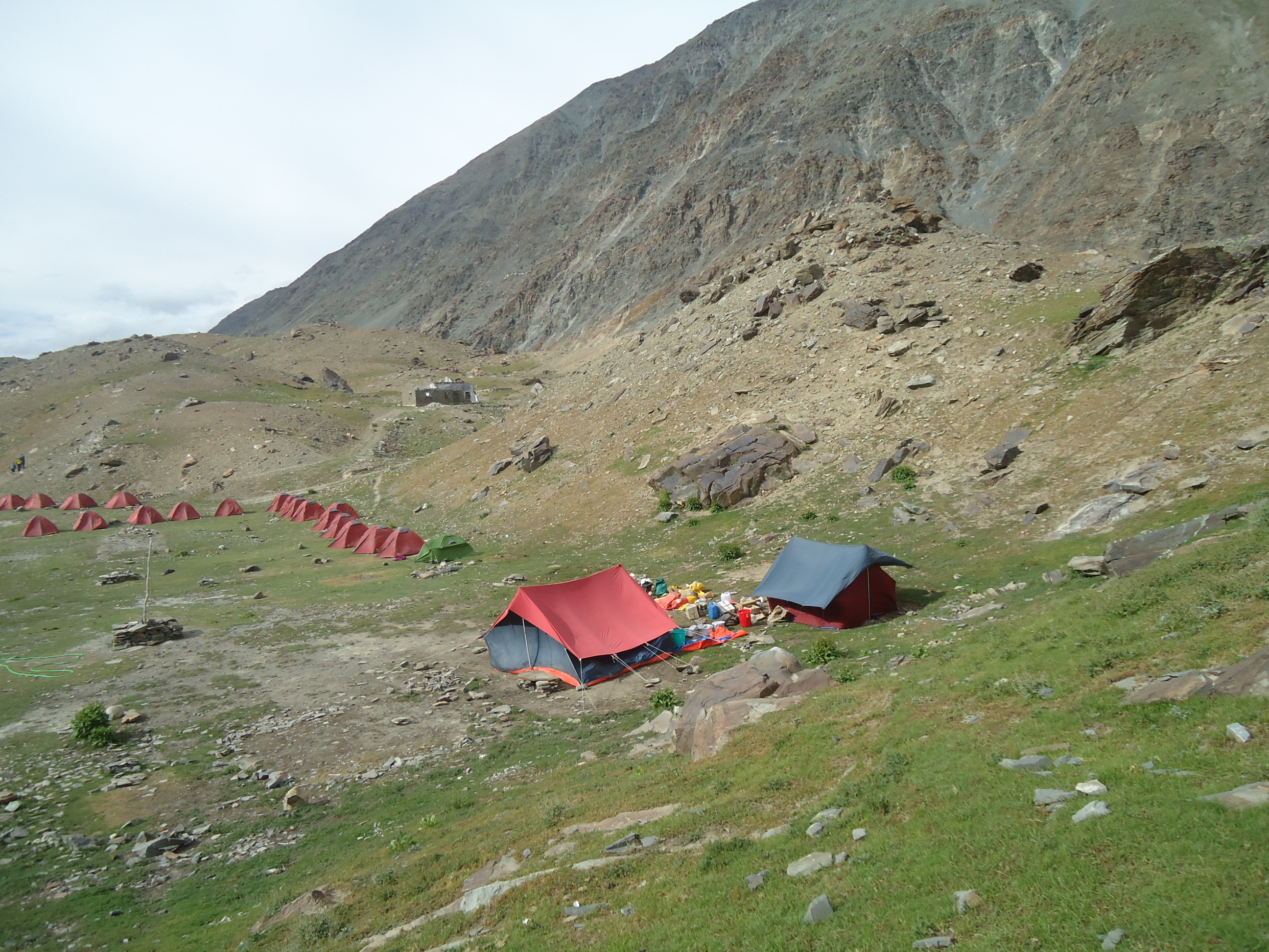 On the way of batal